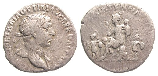 Cretan coin. Trajan AR Drachm from Crete. IMP CEAS NER TRAIA OPTIM AVG GER DAC PART, laureate bust right, aegis on far shoulder / DIKTUNNA, Diktynna seated left on rocks, holding spear & infant Zeus, helmeted Curetes to either side